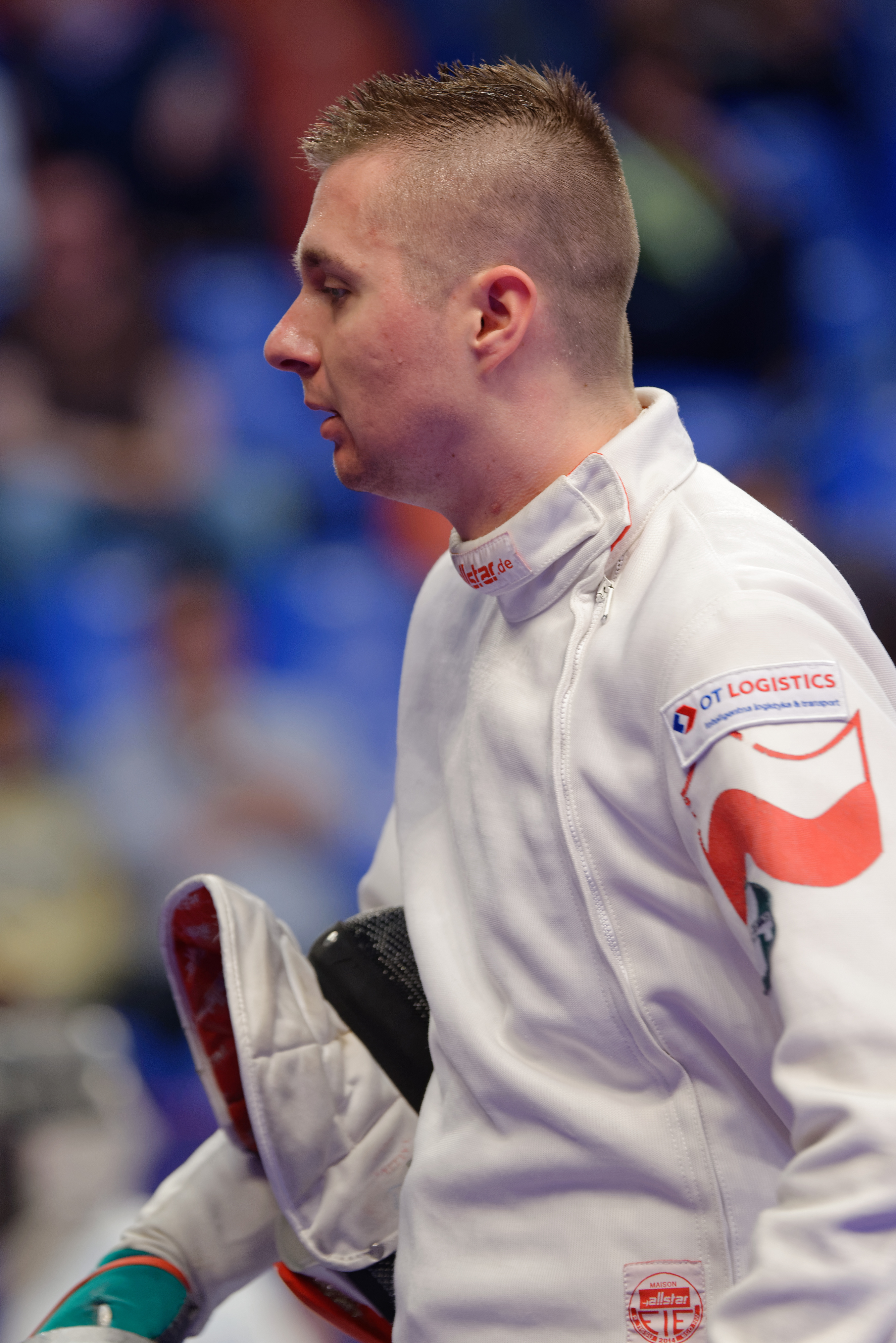 Poland's Mateusz Nycz at the Challenge SNCF Réseau 2016, a men's épée World Cup event, in the Stadium Pierre de Coubertin, Paris.